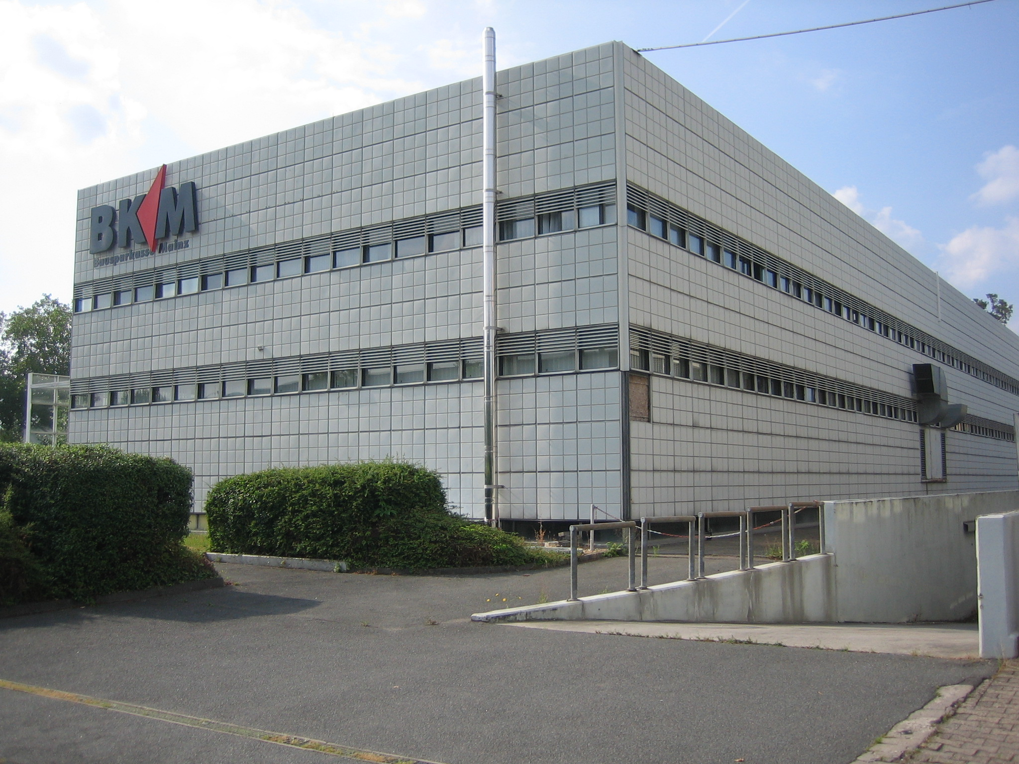 Arne Jacobsen building for Novo Nordisk in Mainz, erected 1969